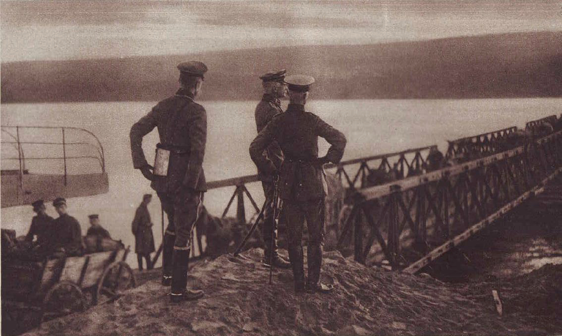 Fieldmarshal von Mackensen,at the Romanian side, watching his troops crossing the Danube over the pontoon bridge at Svishtov.